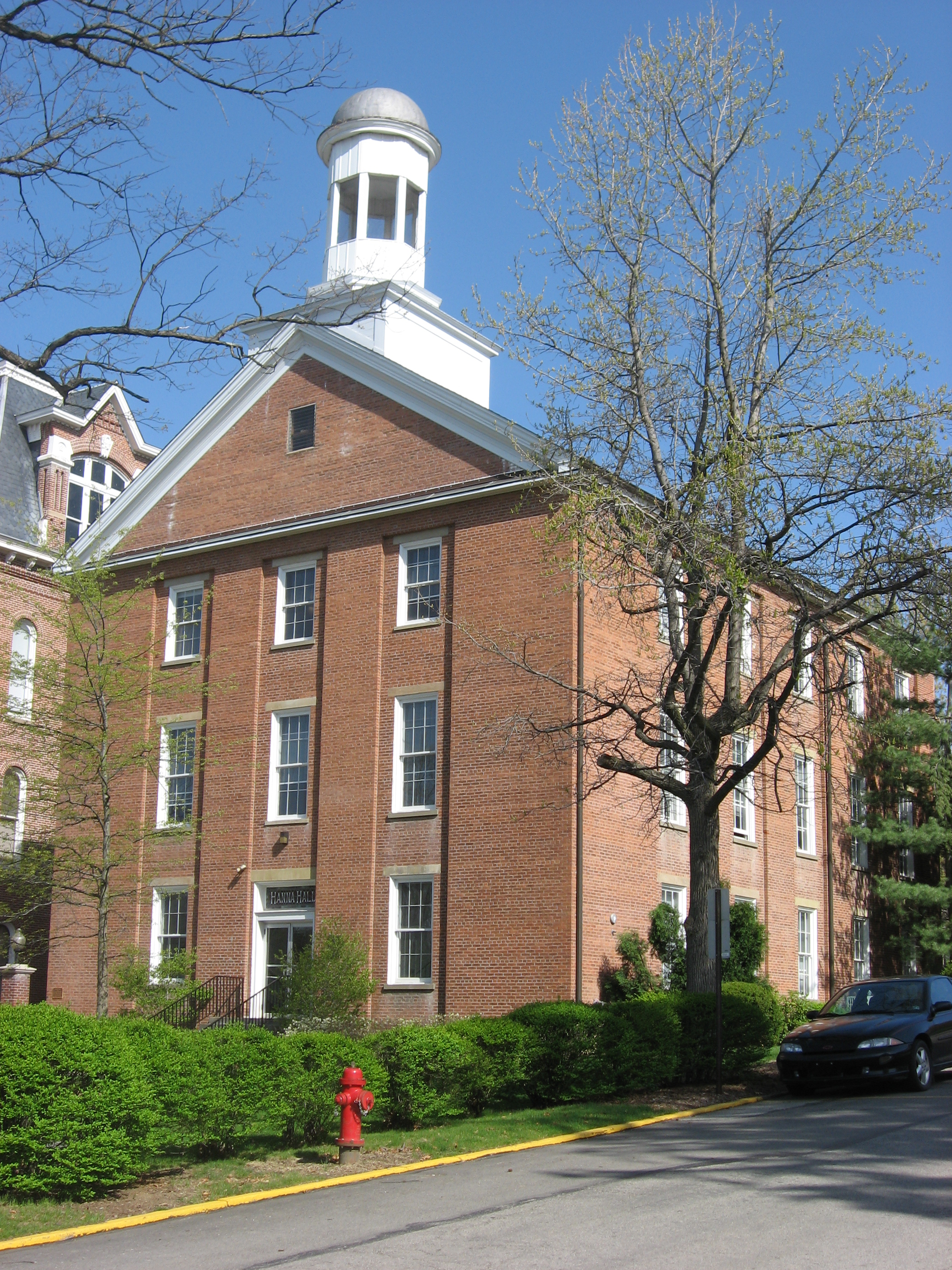 Front and side of Hanna Hall on the campus of Waynesburg University in Waynesburg, Pennsylvania, United States. Built in 1851, it is listed on the National Register of Historic Places.